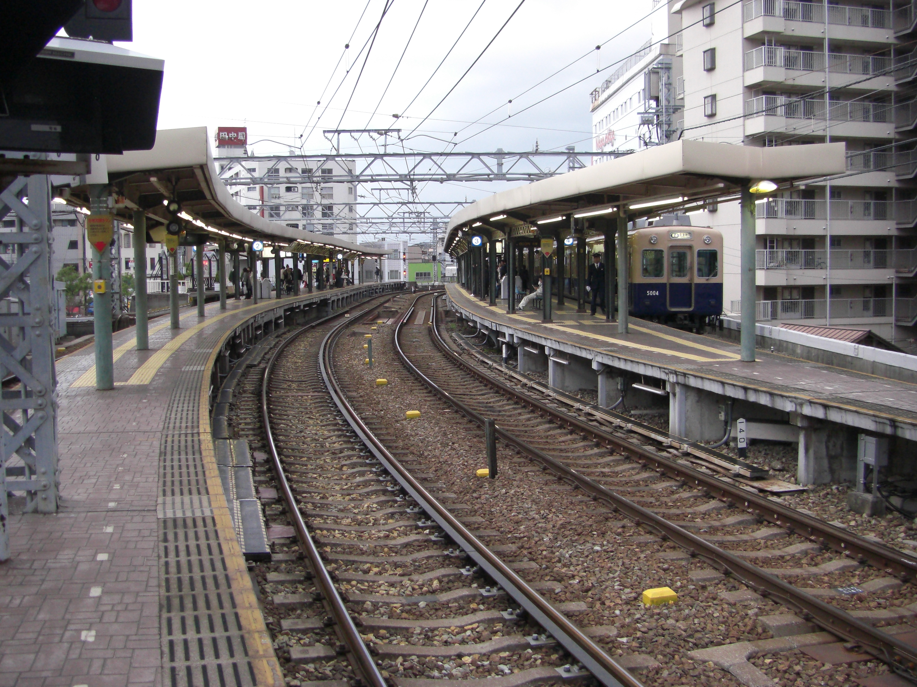 The platform of Mikage Station in Kobe, Hyogo, Japan. It is the station on the Hanshin Main Line operated by Hanshin Electric Railway.